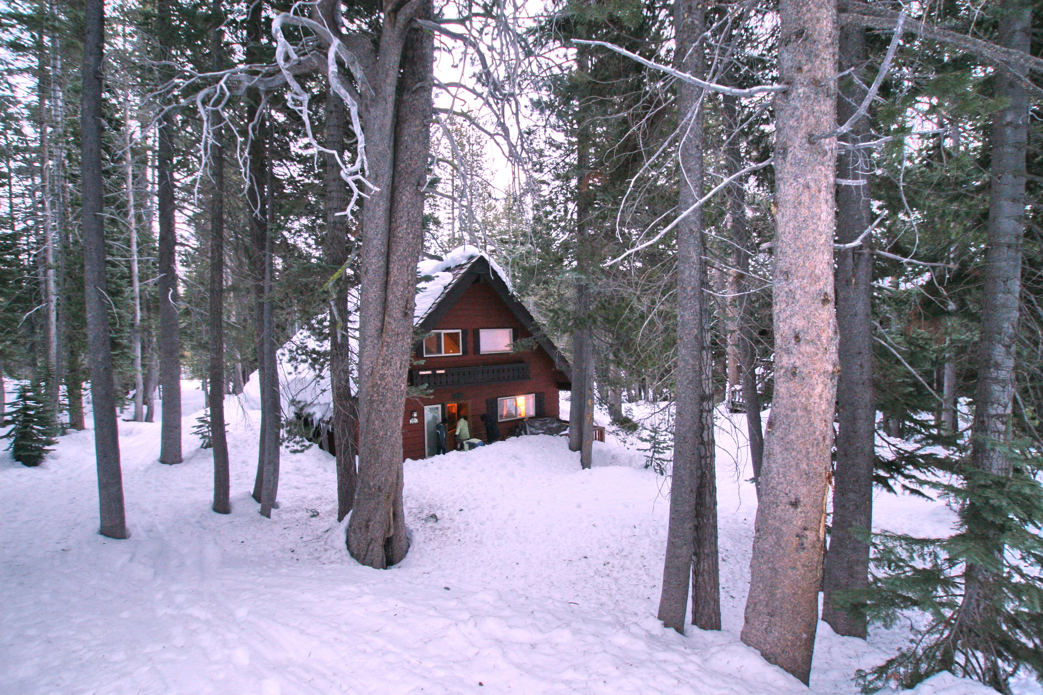 Bear Valley lodge 2007